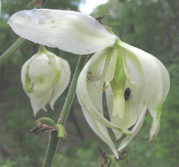 Closeup of a Yucca filamentosa flower.